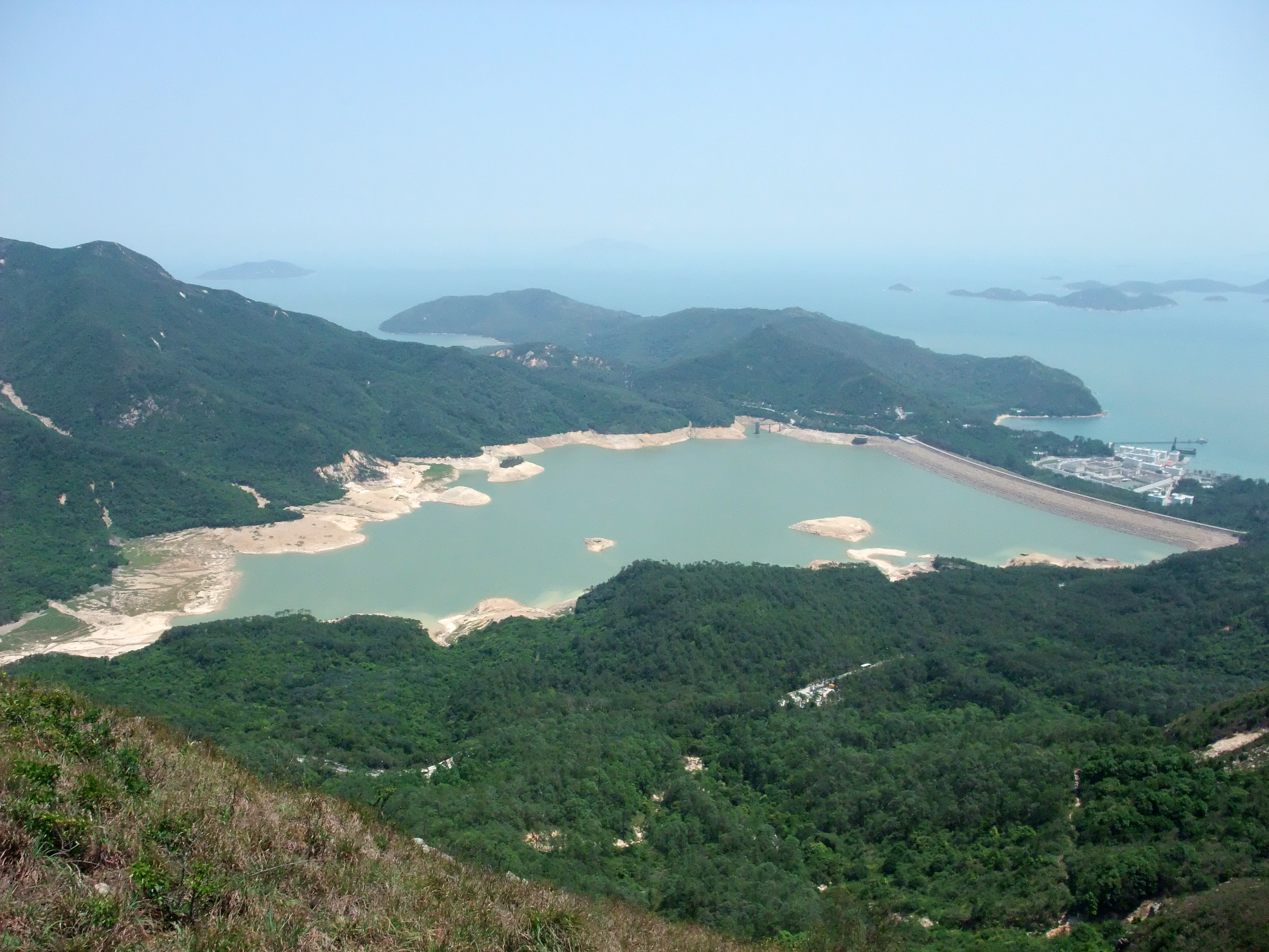 Photo of Shek Pik Reservoir